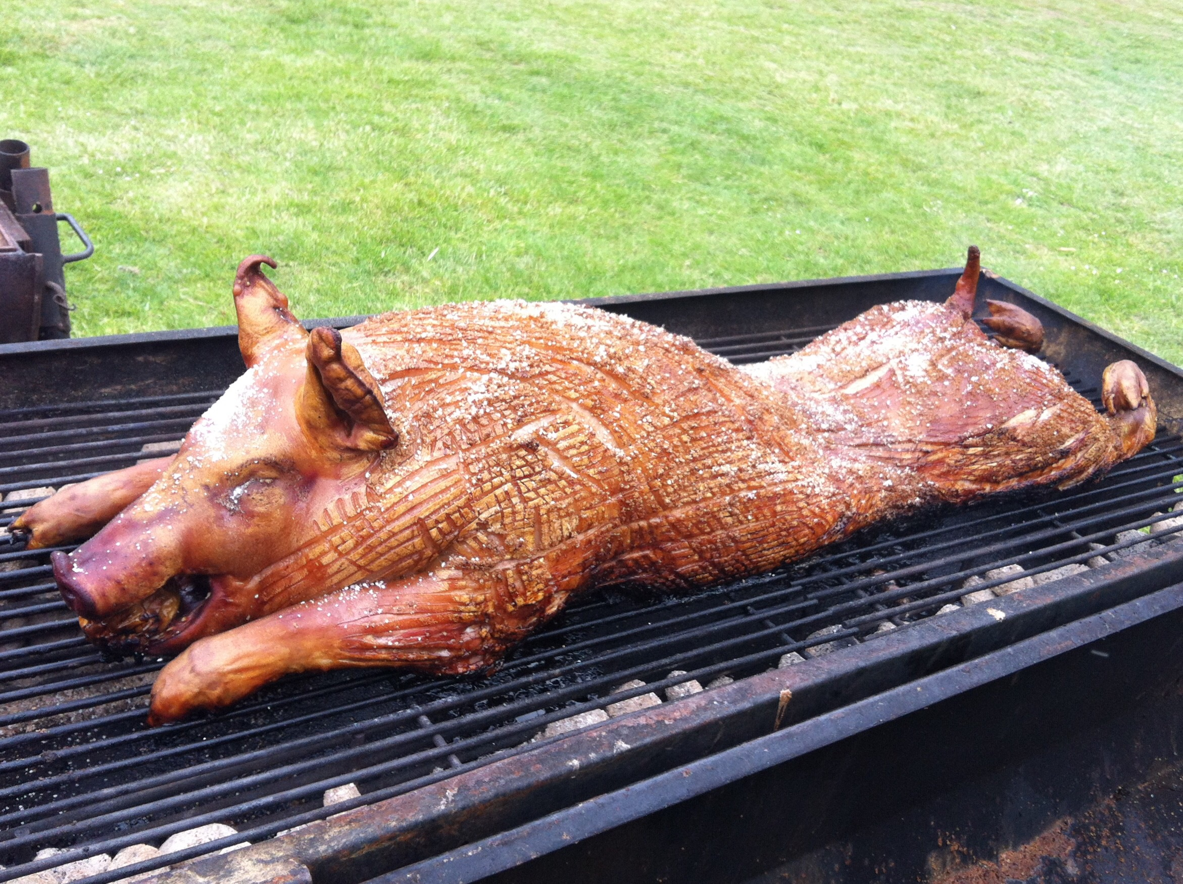 Grilled pork on barbeque